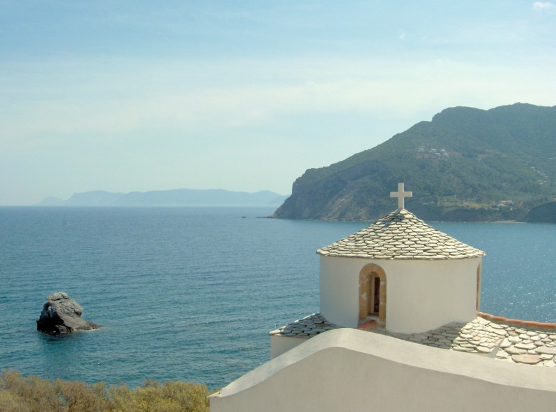 A typically Greek view from Skopelos.